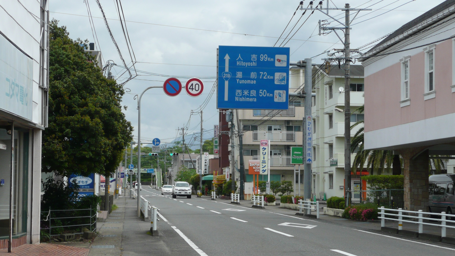 National Route219 (Japan) - Central Saito City